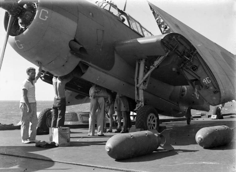 Bombing up a Royal Navy Grumman Avenger Mk.II aircraft of 832 or 845 Naval Air Squadron on the flight deck of the aircraft carrier HMS Illustrious (87) sailing in the Indian Ocean in readiness for the raid on Soerabaya, Java, in May 1944. The air strike against the Japanese held naval base was carried out by British, American, Australian, French and Dutch units. Several of the armourers are stood inside the aircraft's open bomb bay.